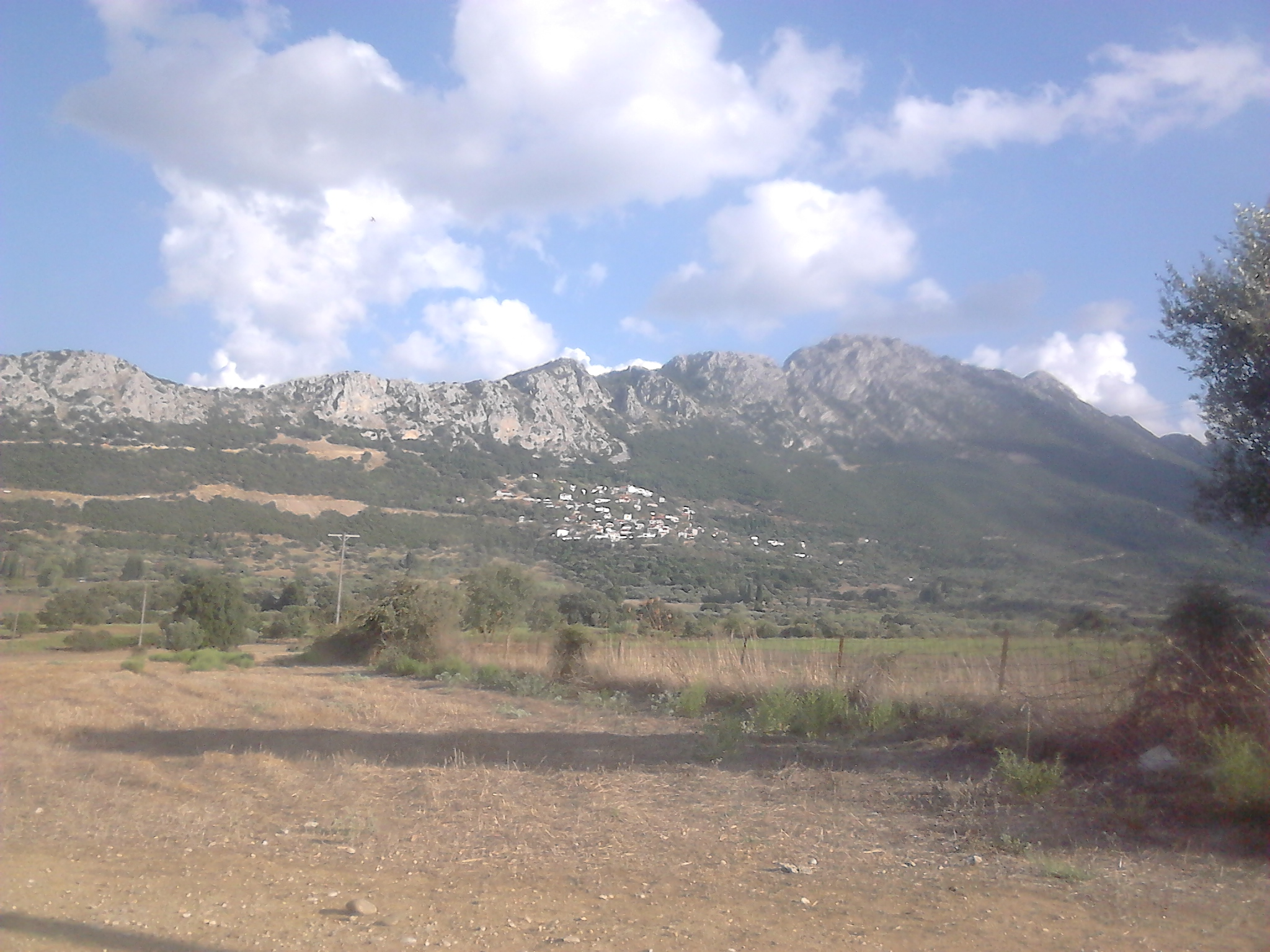 Sntomeri village in Achaia